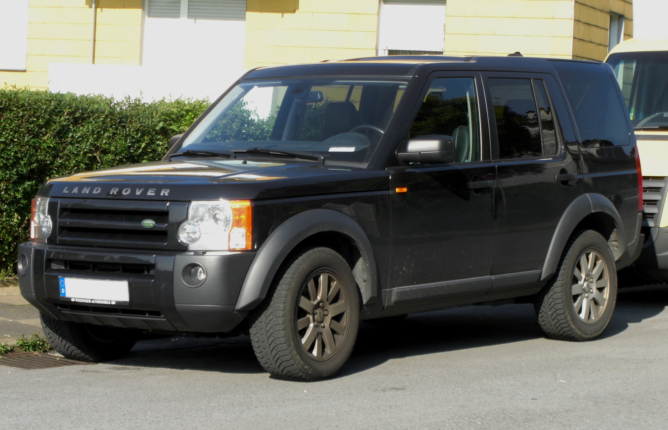 Land Rover Discovery 3